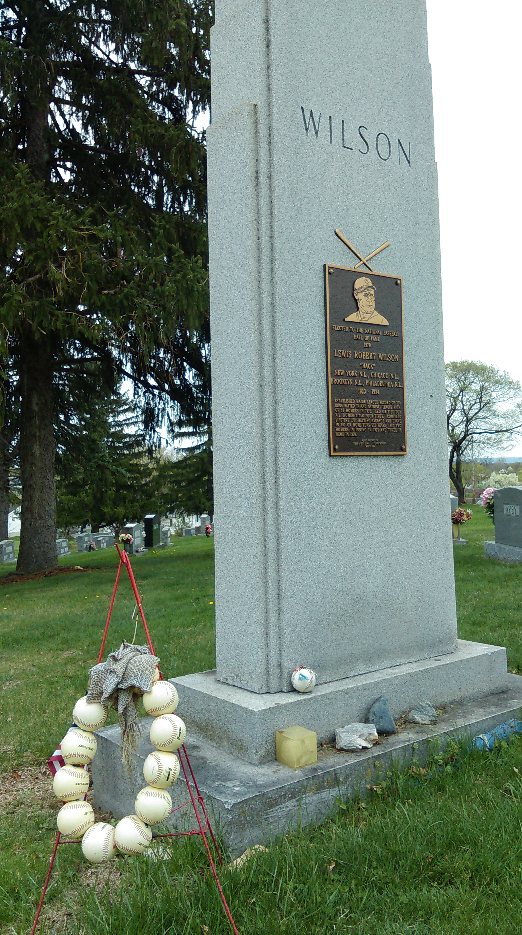 Gravestone of Baseball Hall of Famer Hack Wilson, located in Rosedale Cemetery in Martinsburg, WV.